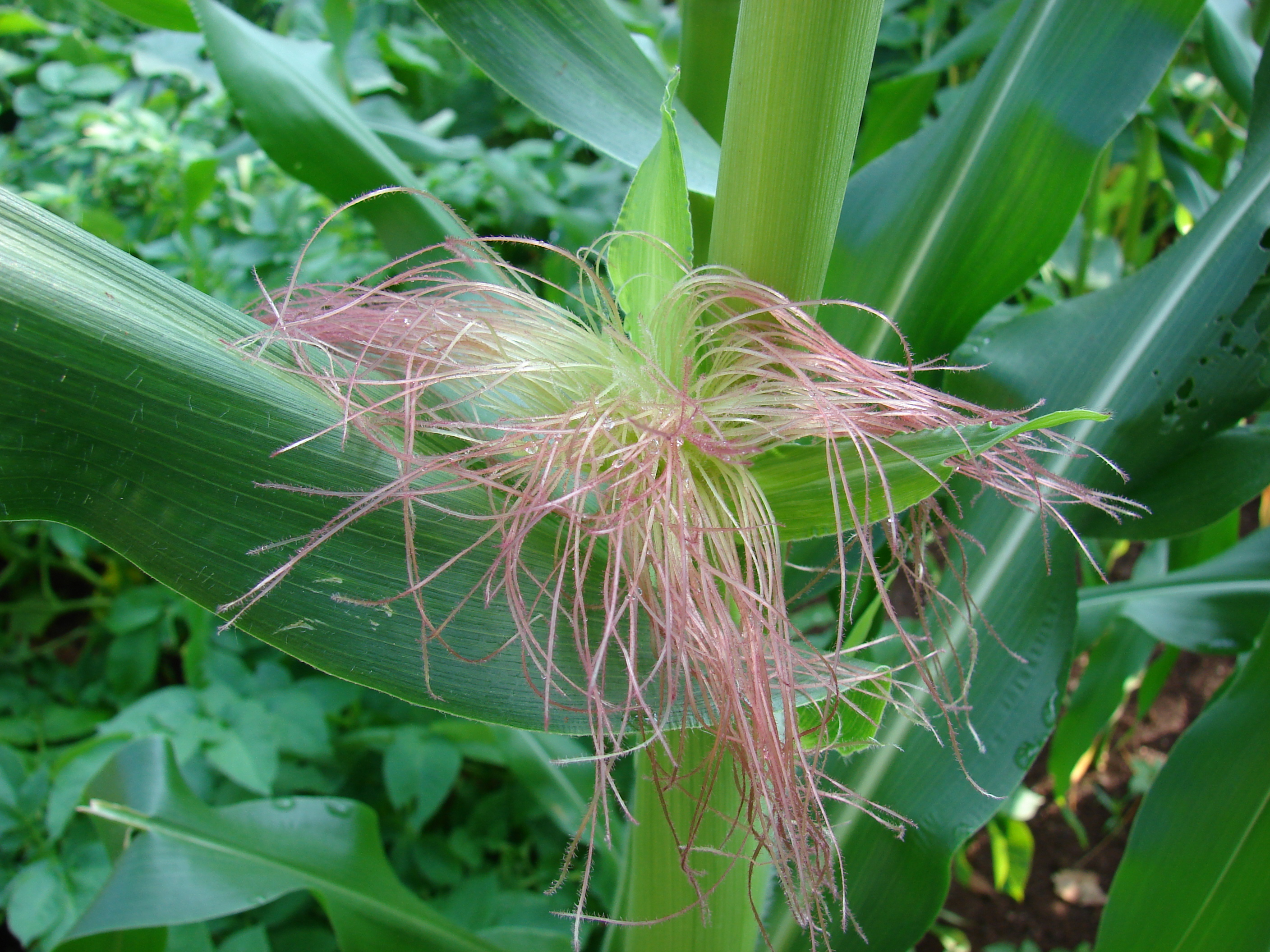 Zea mays (female flowers). Location: Maui, Makawao